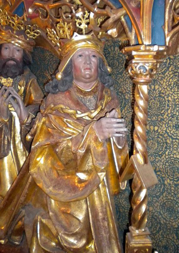 Sculpture of King John II Hans of Sweden, also King of Denmark and Norway, by Claus Berg about 1530Place: Church of St. Canute’s, Odense, Denmark